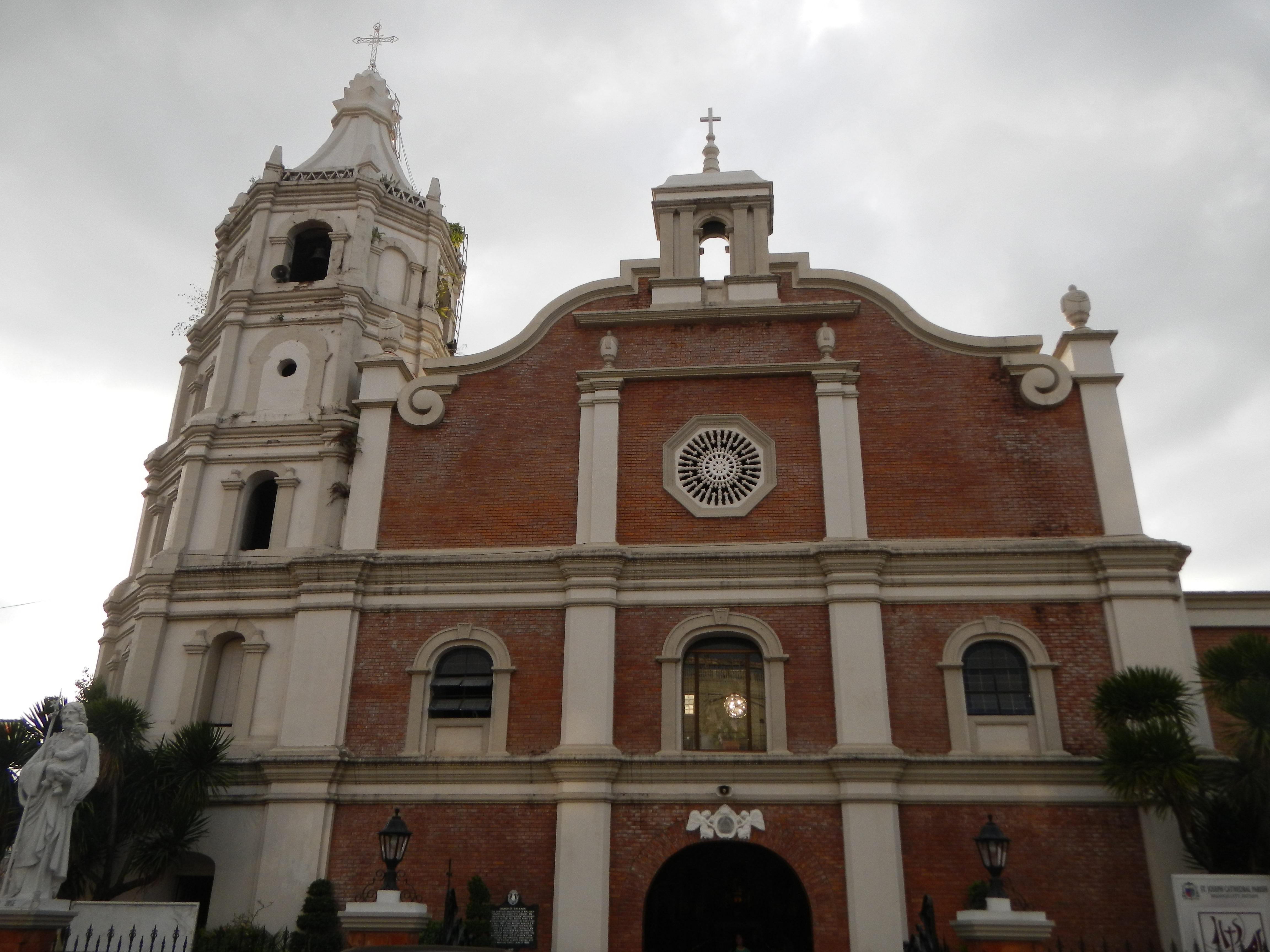 [1]Balanga Cathedral, formally known as St. Joseph Cathedral in Balanga City, Bataan, is the seat of the Diocese of Balanga which comprises entire of the civil province of Bataan. The current rector and parish priest of the cathedral is Fr. Abraham Pantig.[2] [3] Balanga City, Bataan[4][5][6]